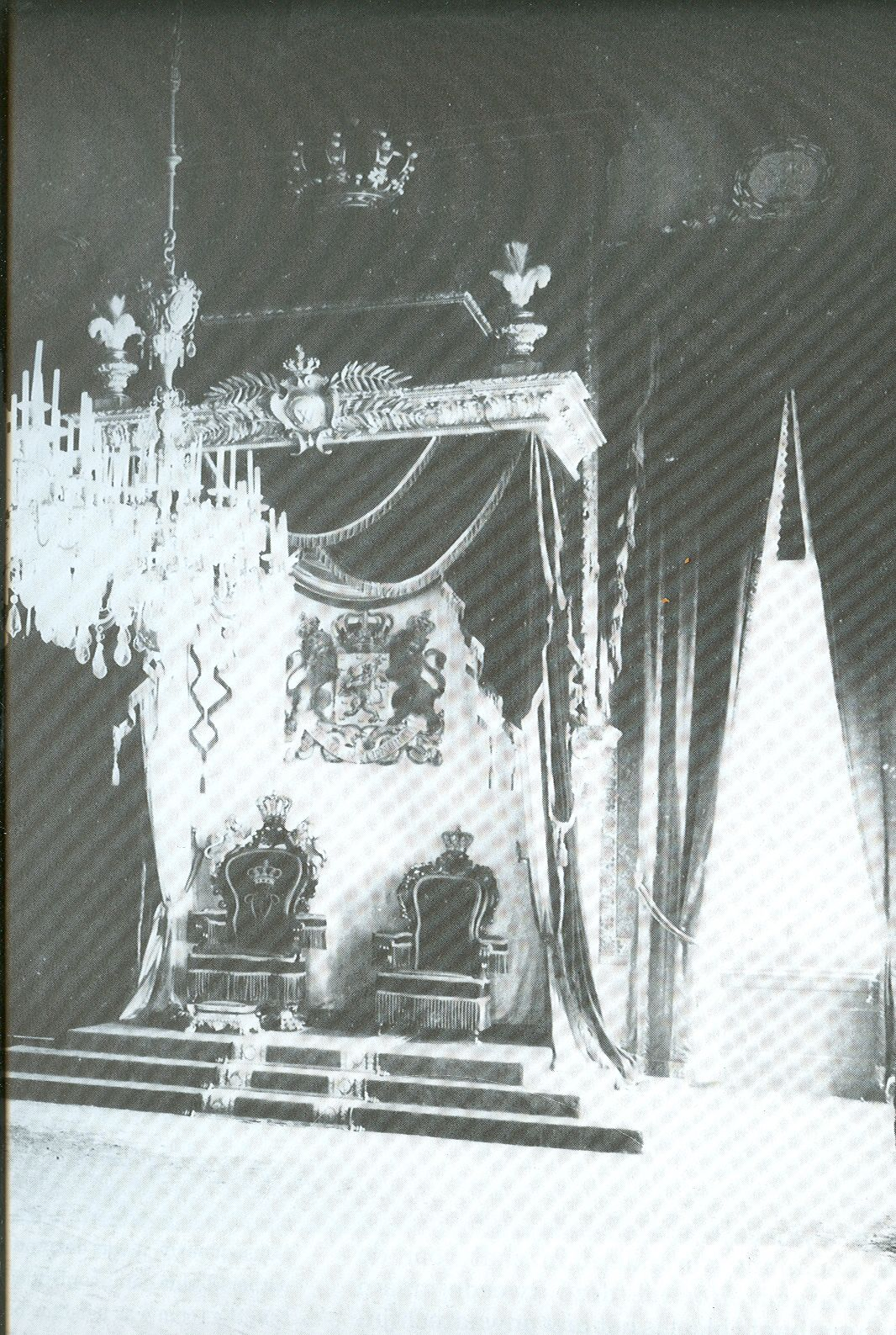 The Throne room in the Palace in Amsterdam 1900